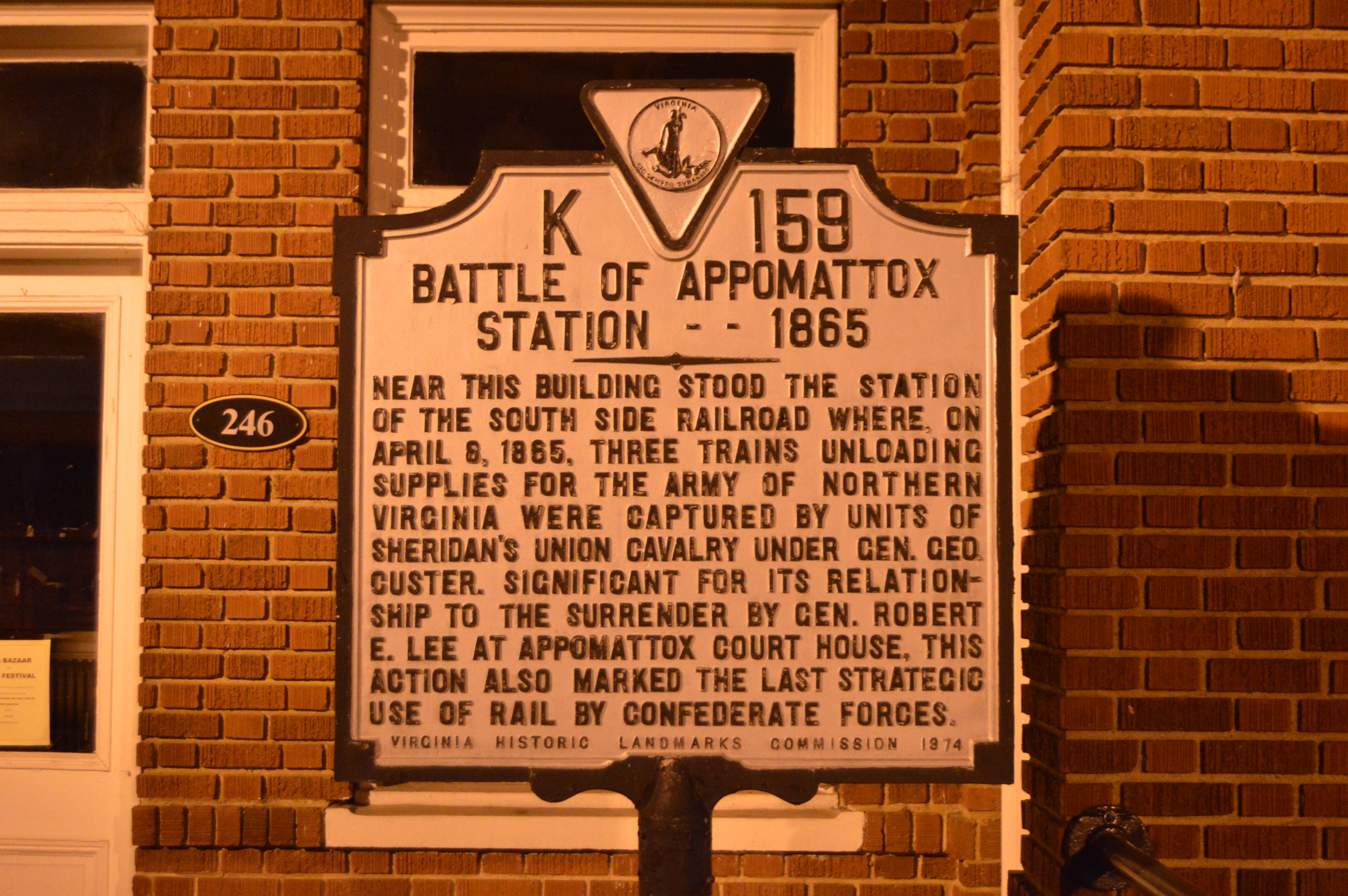 Historical marker located in front of the rail depot, on Main Street just west of Church Street, in central Appomattox, Virginia, United States.